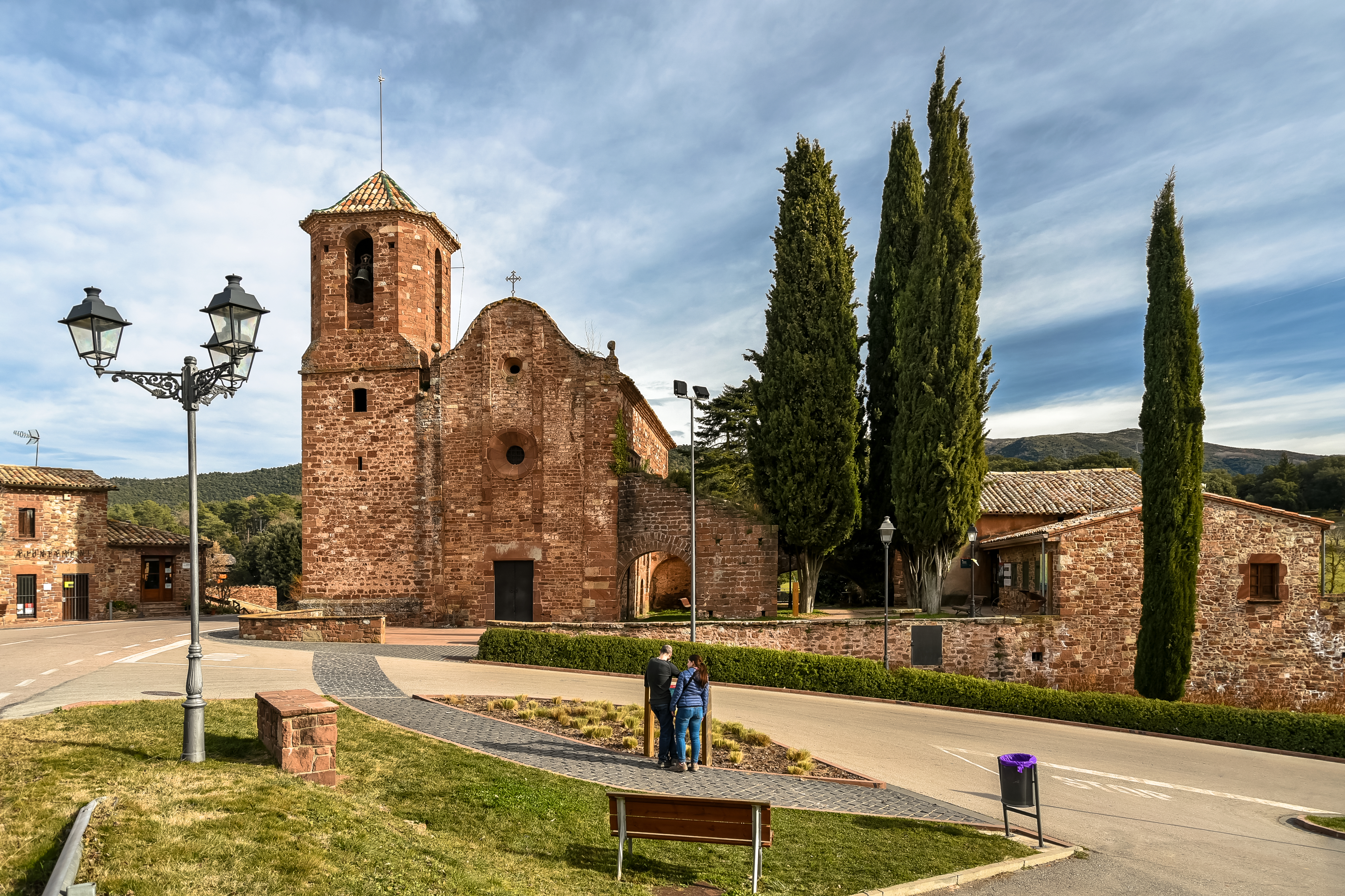 A street scene from El Brull picturing Sant Martí del Brull church